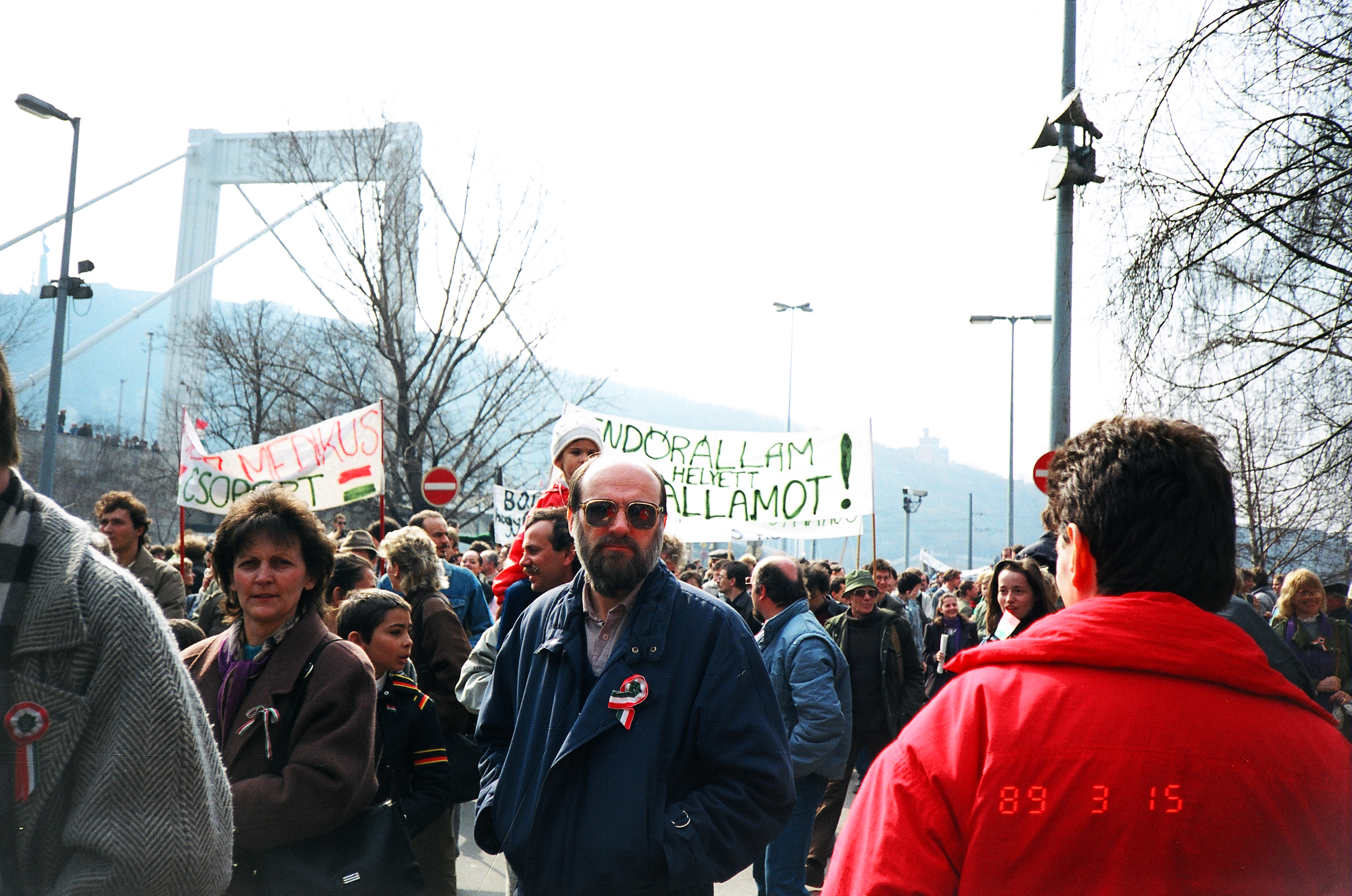 Live on the 15th of March, 1989. Hungary, Budapest, the statue of Petőfi Sándor, Szabadság square, Kossuth square, Pest bridgehead of the Margaret bridge. After decades of forbidden national days, on the 15th of March, 1989, the communist regime of Hungary allowed people to celebrate 1948 –1949 revolution. Parallel with the state celebration at the National Museum, independant organisations called the public to gather at the statue of Petőfi Sándor. Published under Creative Commons in the Metapolisz DVD line. All of the photos and vids in the Metapolisz DVD line are under Creative Commons and can be used even for commercial – for profit – purposes. Recommended Citation Derzsi Elekes Andor: Metapolisz DVD line Megjelent Creative Commons alatt a Metapolisz sorozatban. A Metapolisz sorozat valamennyi képe és filmje Creative Commons alatti valamint kereskedelmi - for profit - célra is felhasználható. Ajánlott hivatkozás: Derzsi Elekes Andor: Metapolisz DVD line Tags: Hungary Magyarország 1989 March the 15th Budapest change of the system Bégány Attila Derzsi Elekes Andor Metapolisz Nemzeti Ünnep – Budapest, 1989.03.15 A felvétel 1989. március 15 –én, szerdán készült, Budapesten, a Petőfi szobornál (1, 2), a Szabadság téren (3, 4), a Kossuth téren (5, 6) illetve a Margit híd pesti hídfőjénél (7). A cellulóz film jpg formátumra szkennelt előhívása. Plakátok: 1. IGAZ…………..ÉST !, 2………MEDIKUS CSOPORT, 3. RENDŐRÁLLAM HELYETT JOGÁLLAMOT ! 4. BO……..hogy Források: Petőfi szobor, Szabadság tér: MDF fáklyás felvonulás: Állambiztonsági jelentés: (Napi Operatív Információs Jelentés) 23. oldal 1989. március 15 – Az ellenzék előszőr mutatta meg az erejét Március 15-e a magyar fővárosban Címkék: Nemzeti Ünnep 1989. március 15 Budapest Magyarország Petőfi szobor Szabadság tér Kossuth tér Margit híd rendszerváltás Bégány Attila Derzsi Elekes Andor Metapolisz